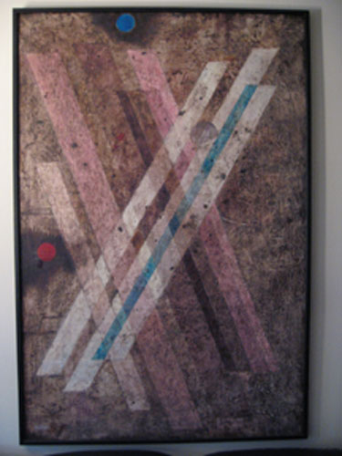 Blue Moon, painting by Nat Mayer Shapiro